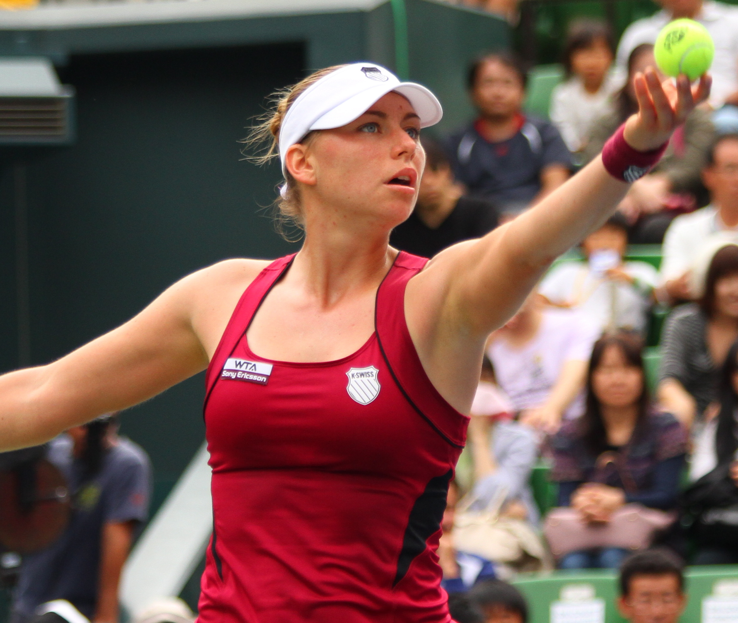 Vera Zvonareva at Toray Pan Pacific Open (Tokyo, Japan) in her final against Agnieszka Radwańska on October 1st, 2011.